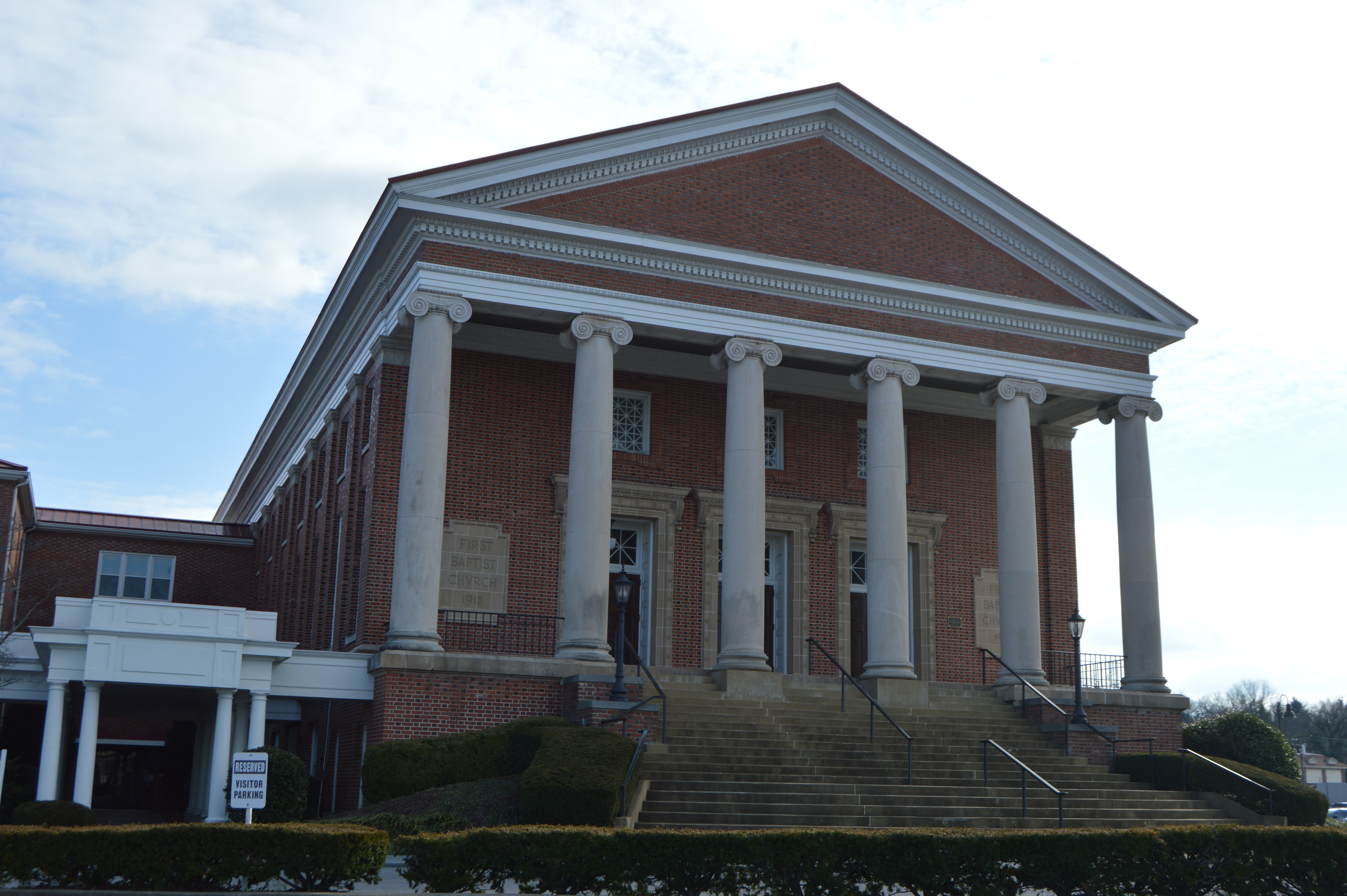 Front and northern side of First Baptist Church, located at 1 Virginia Street in Bristol, Virginia, United States. Built in 1912, it is listed on the National Register of Historic Places.